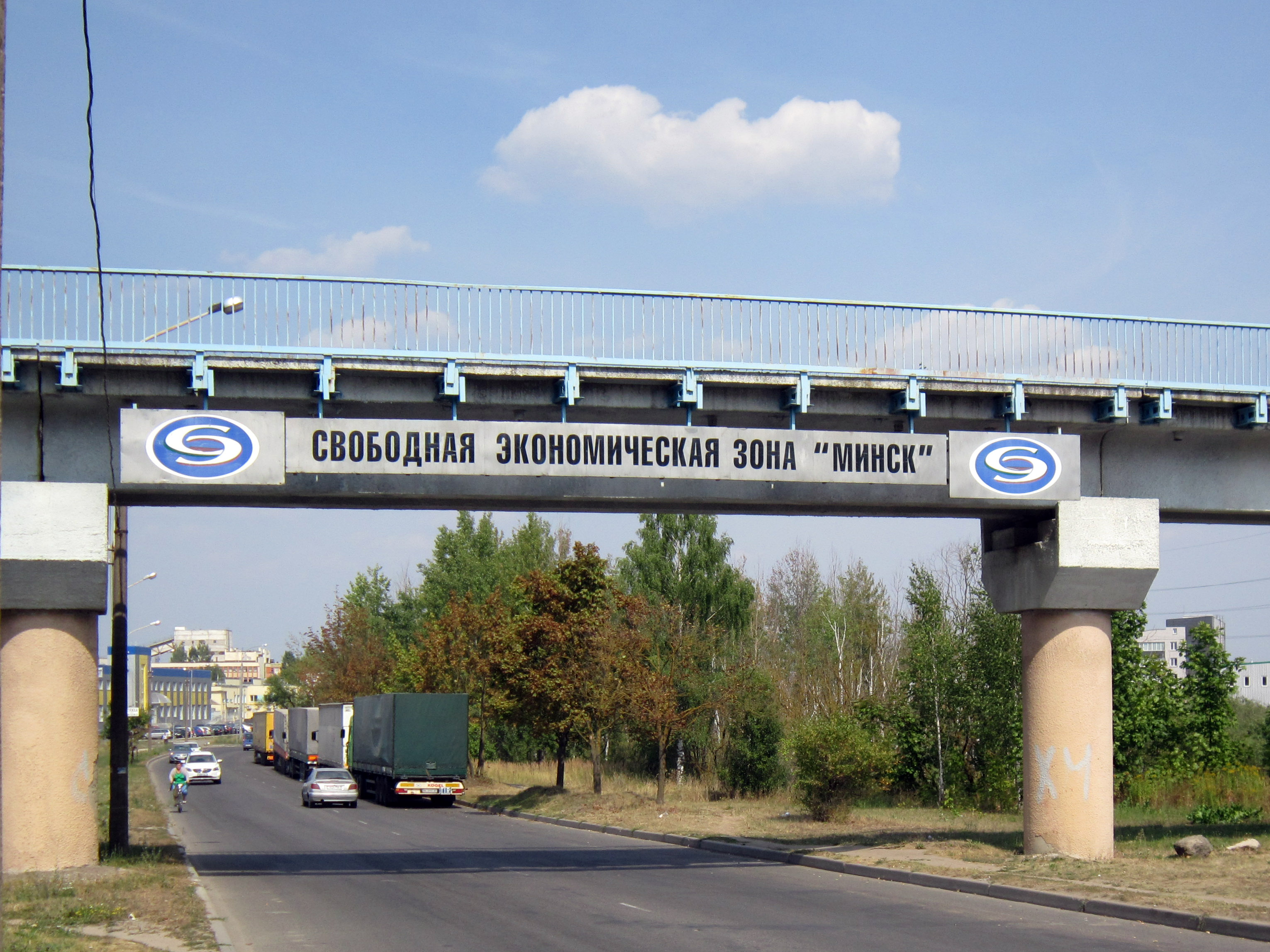 Sialickaha street in Minsk, Belarus. Sign "Free Economic Zone «Minsk»"